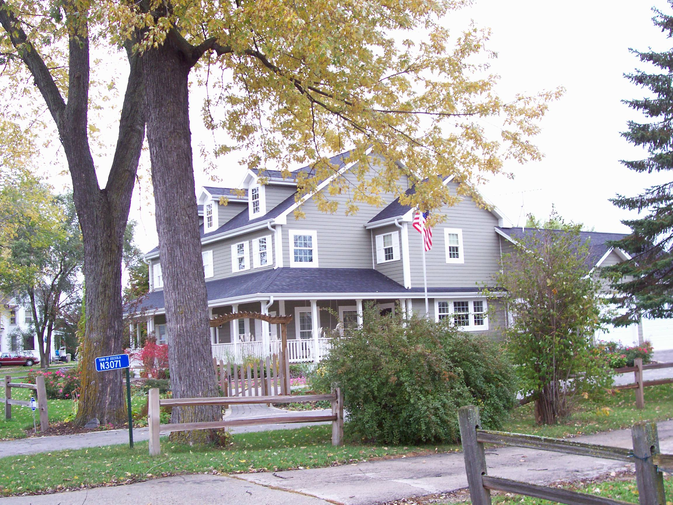 This home in Dundee, Wisconsin, U.S. was built by the Extreme Makeover: Home Edition show on ABC television.